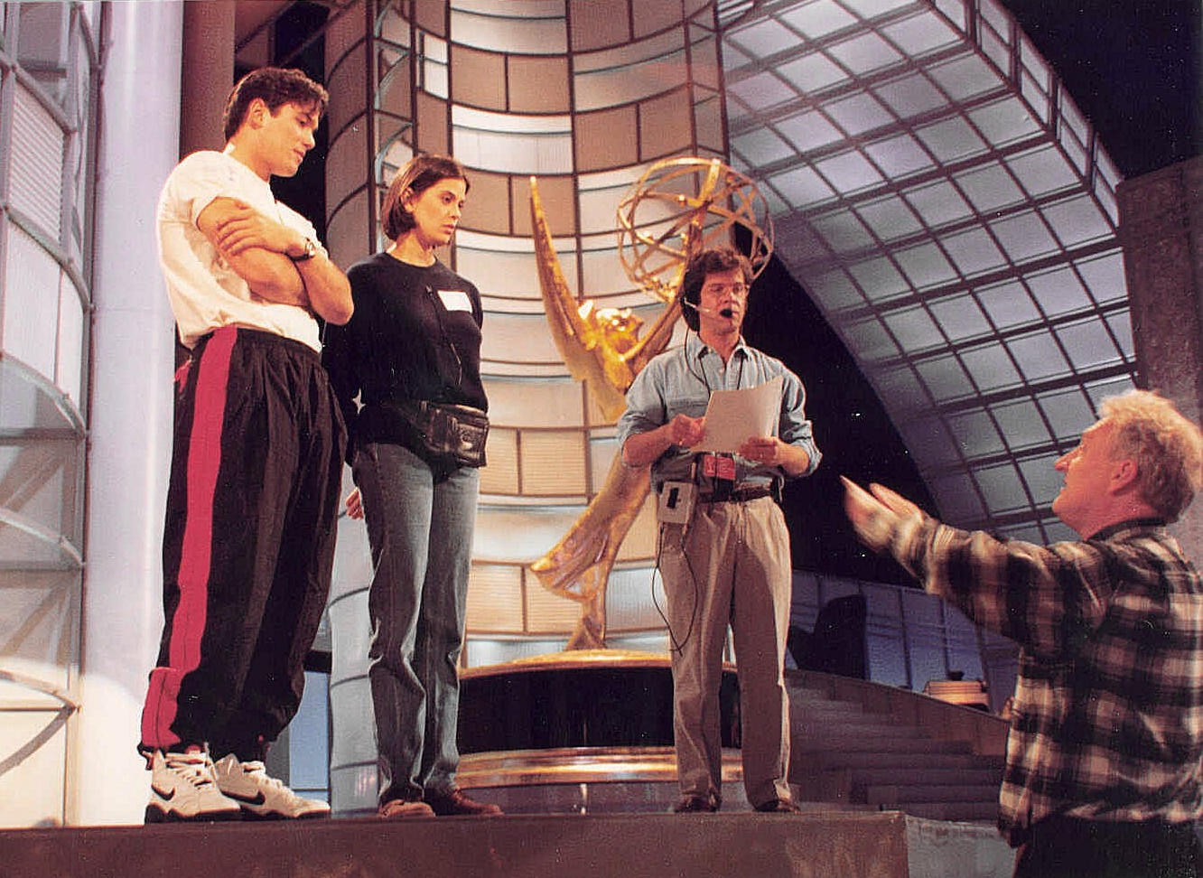 Dean Cain and Teri Hatcher at the 45th Emmy Awards rehearsalterihatcher_deancain-4